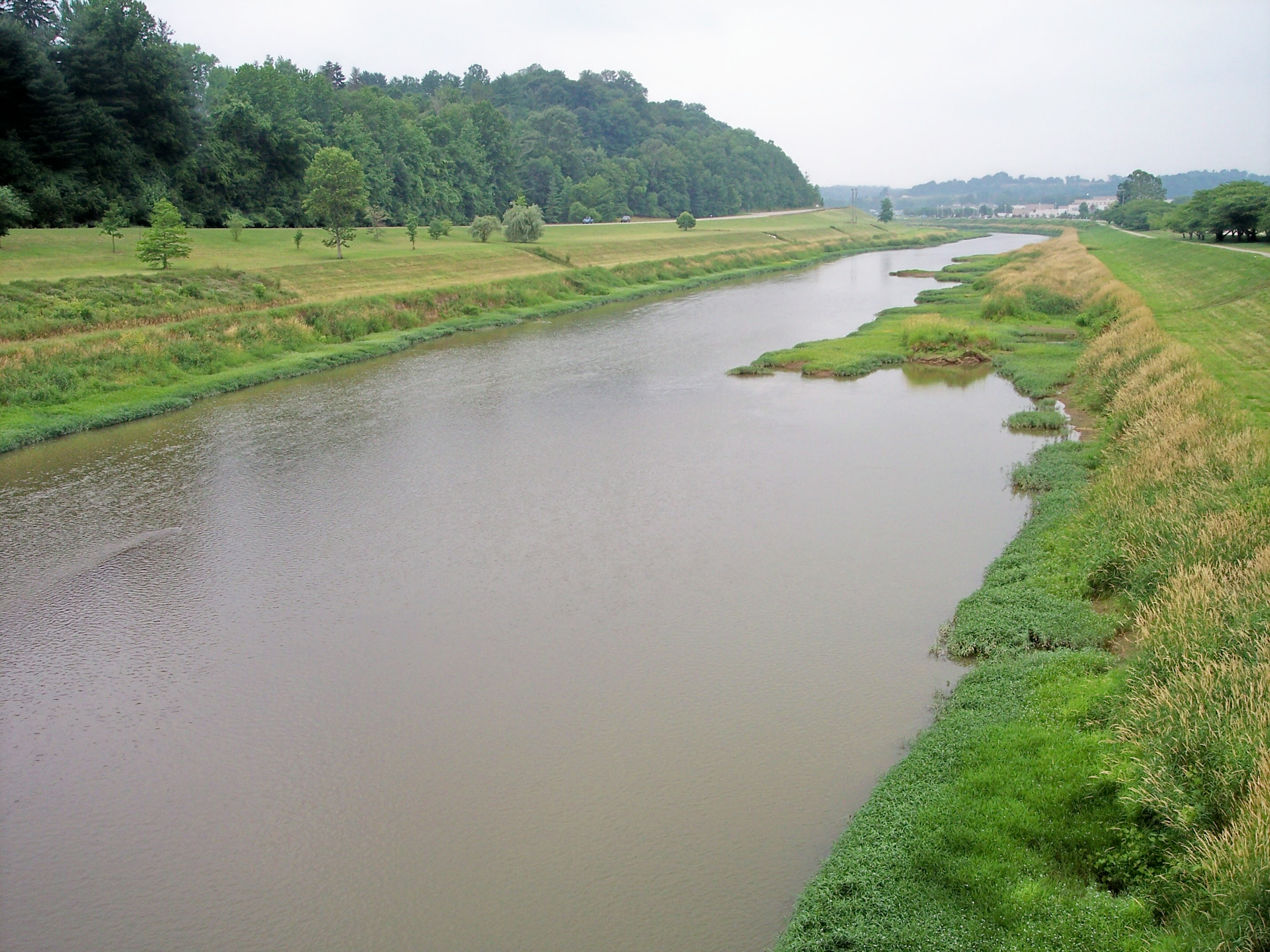 A straightened section of the Hocking River in Athens, Ohio